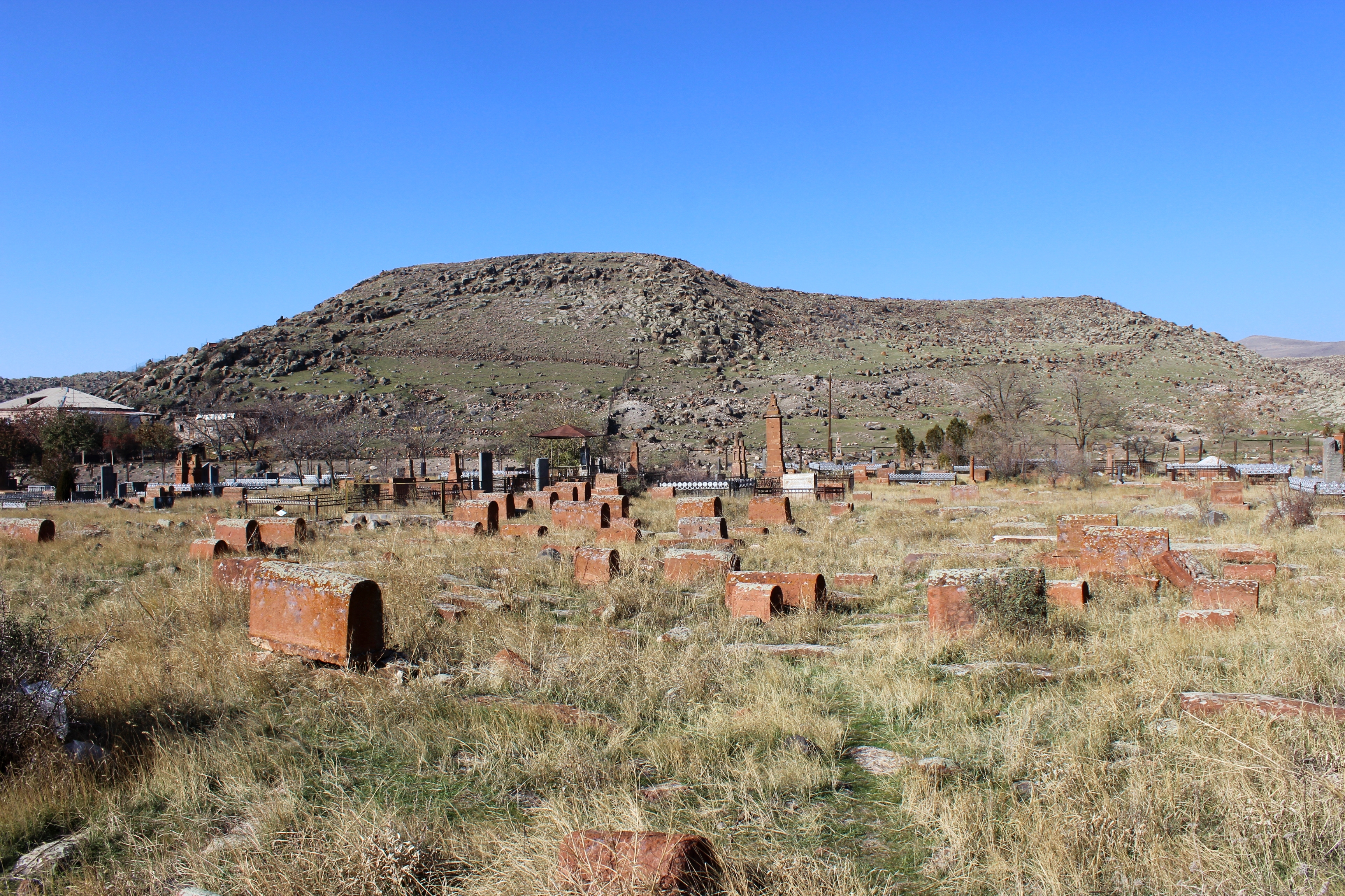 Talin Cemetery, Talin, Aragatsotn Province, Armenia